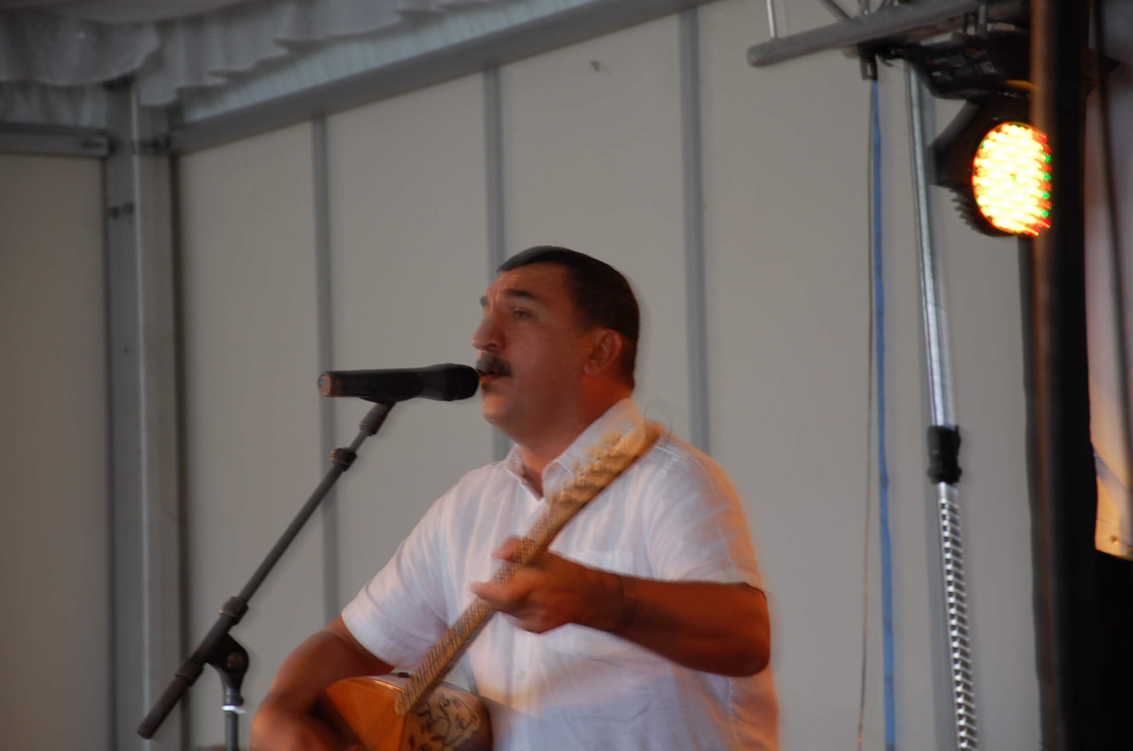 Singer Ferhat Tunc in Oslo, august 2012